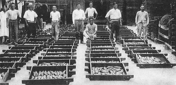 Nan'yo-bushi(Katsuobushi)